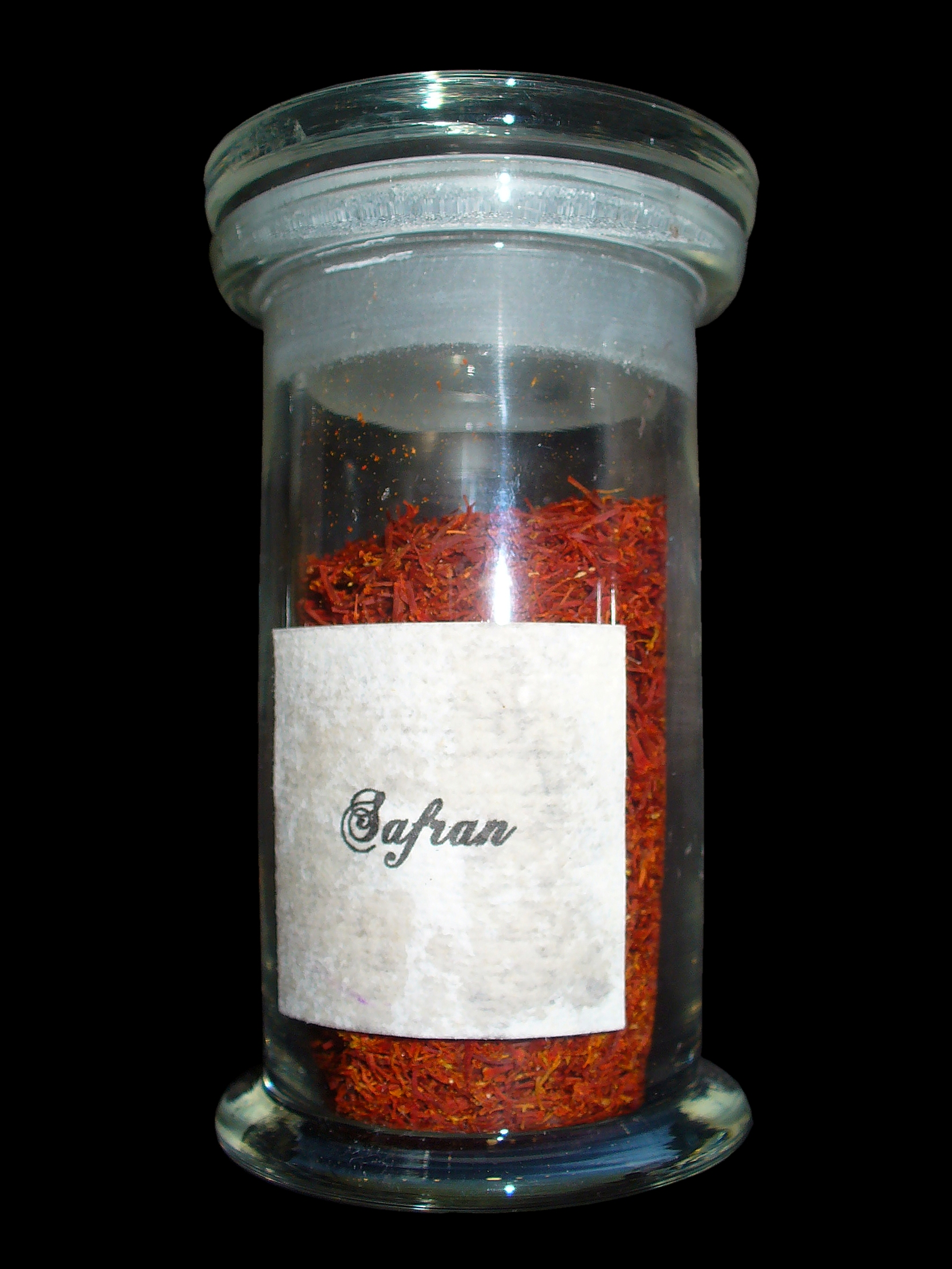 Crocus sativus, Iridaceae, Saffron Crocus, dried carpels; Staatliches Museum für Naturkunde Karlsruhe, Germany. The dried carpel (the spice saffron) is used in homeopathy as remedy: Crocus (Croc.)